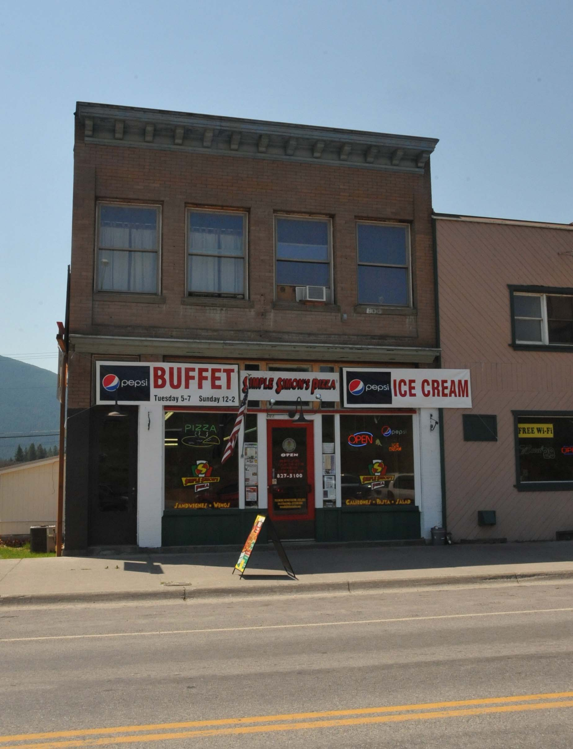 1914; ALSO ONCE KNOWN AS THE NAPA AUTO PARTS BUT NOW IS A PIZZA PARLOR